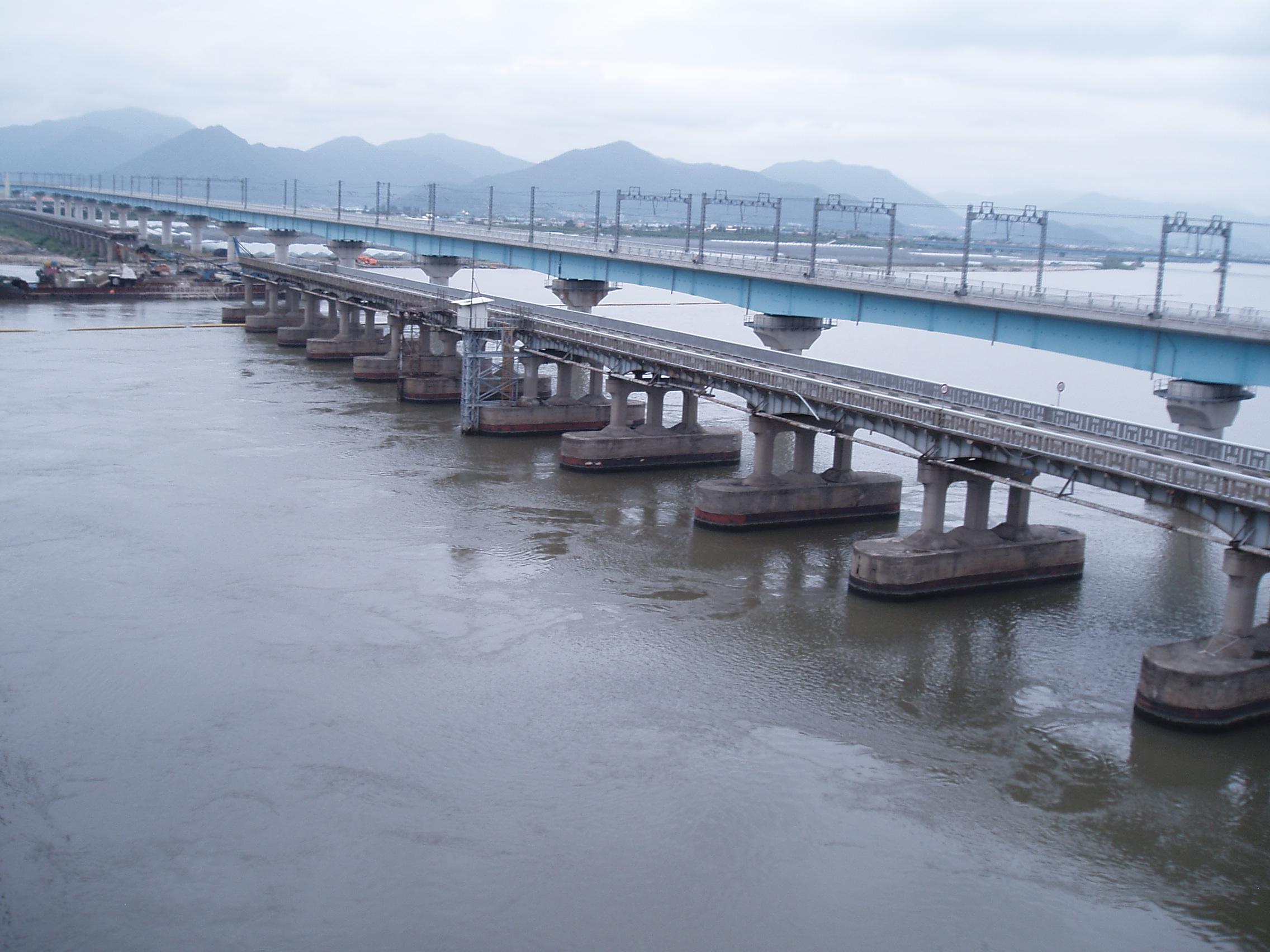 Old Gupo Bridge in Busan Nakdong river